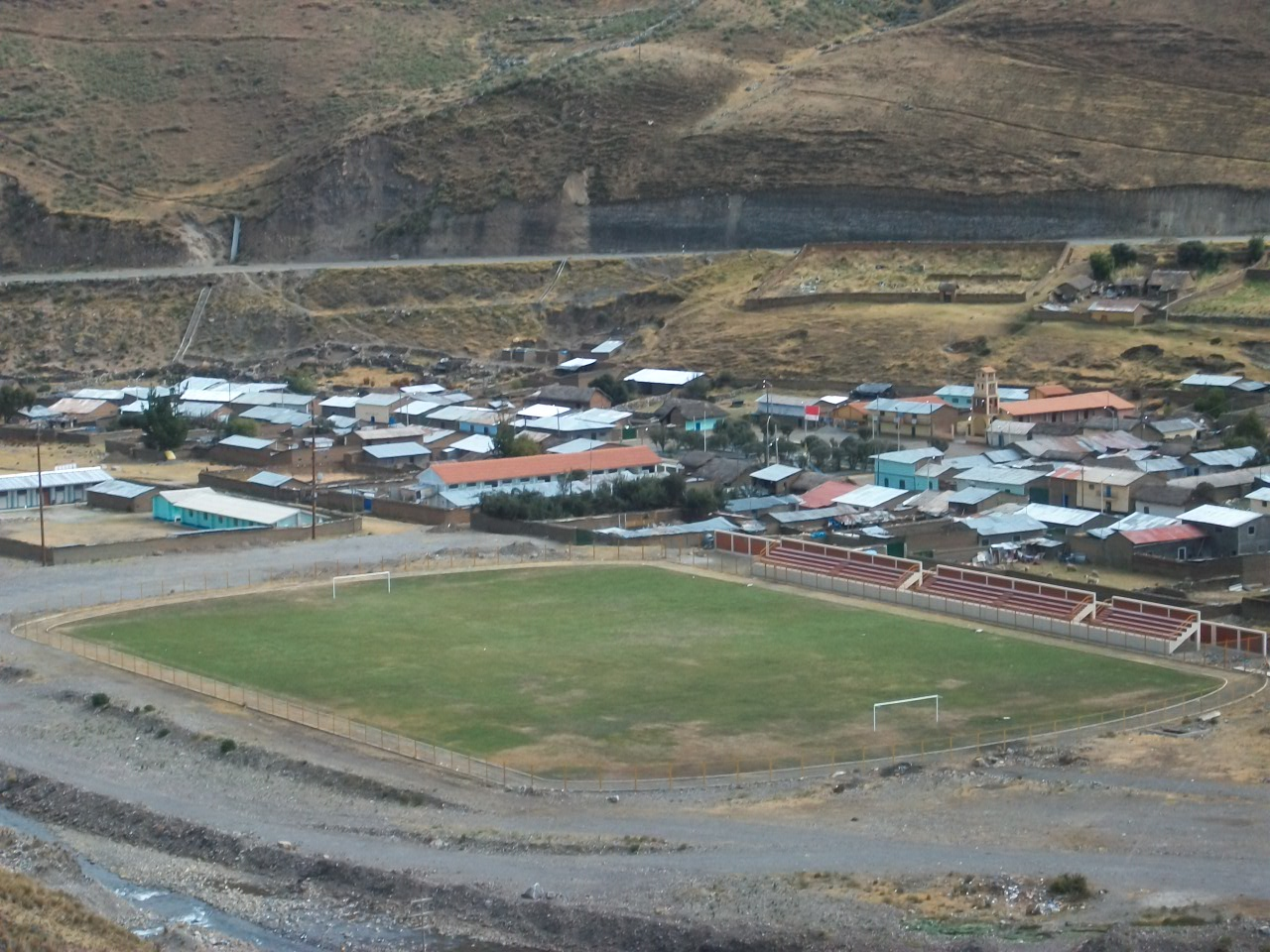 Municipal Stadium Pachapaqui